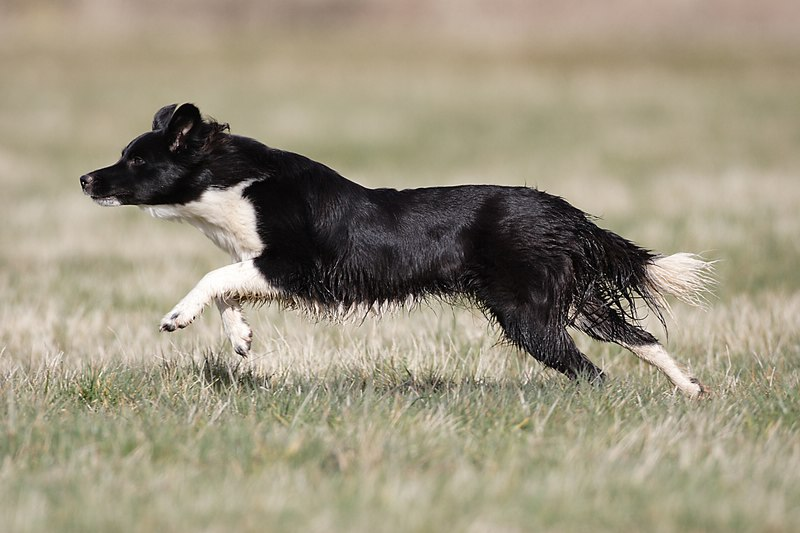 Border Collie